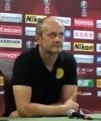 Ceres-Negros head coach Risto Vidakovic (right) with Spanish striker Bienvenido Marañon during the post-match press briefing at the Panaad Park and Stadium in Bacolod City on Wednesday night (May 9, 2018). (Photo by Nanette L. Guadalquiver)